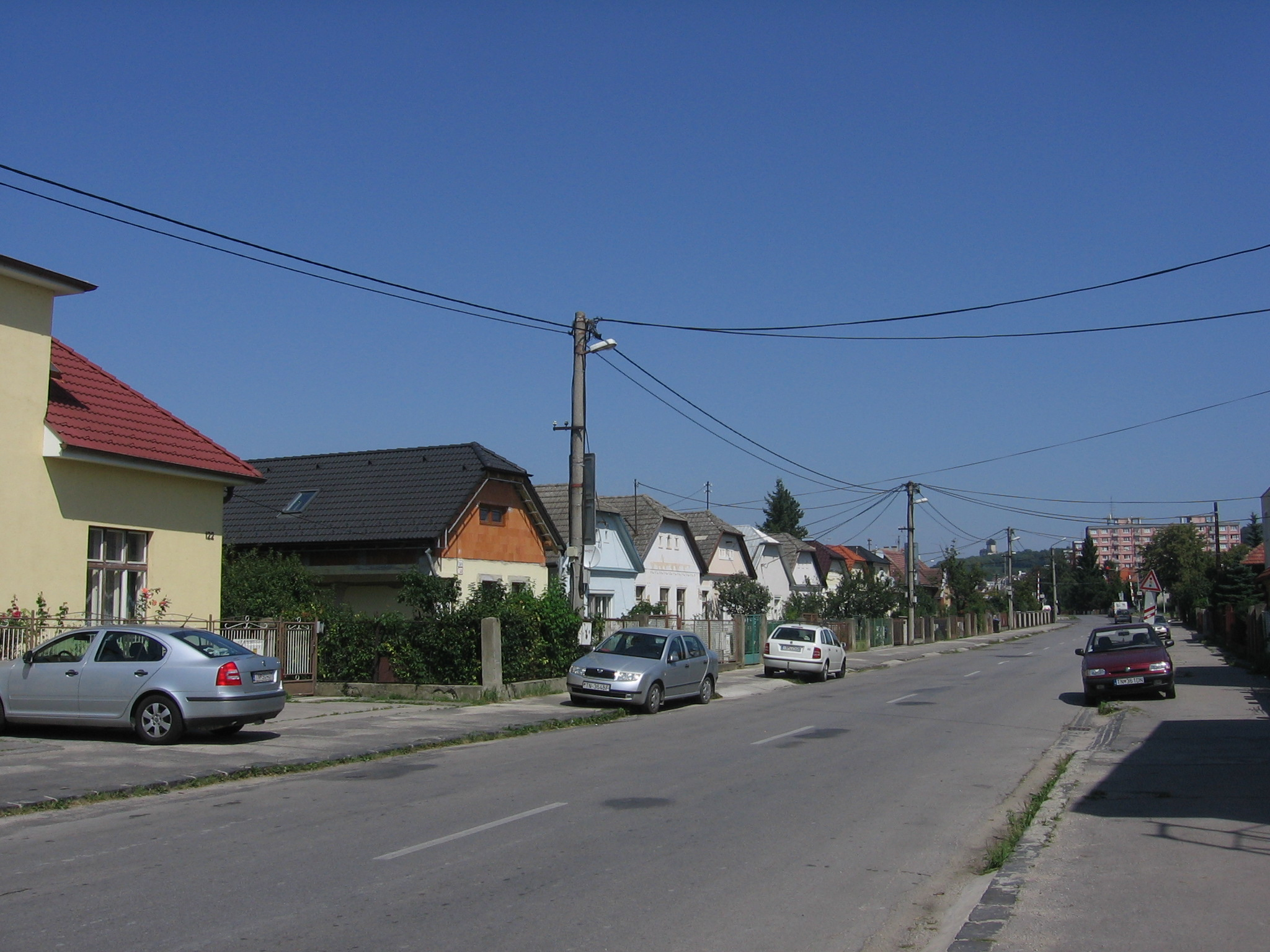 Street in the Trenčianske Biskupice. View to the northeast, Trenčín castle seen in the background.